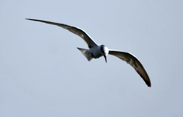 Whiskered Tern Chlidonias hybrida at Hodal in Faridabad District of Haryana, India.